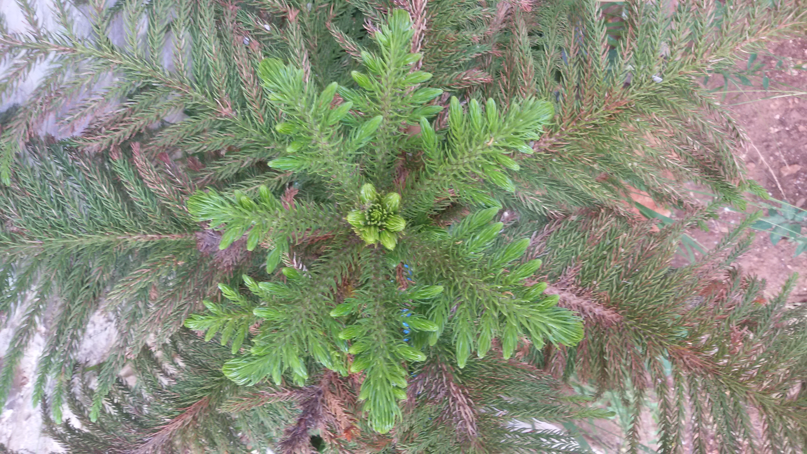 View from above on the top of Araucaria, cultivated in Israel.